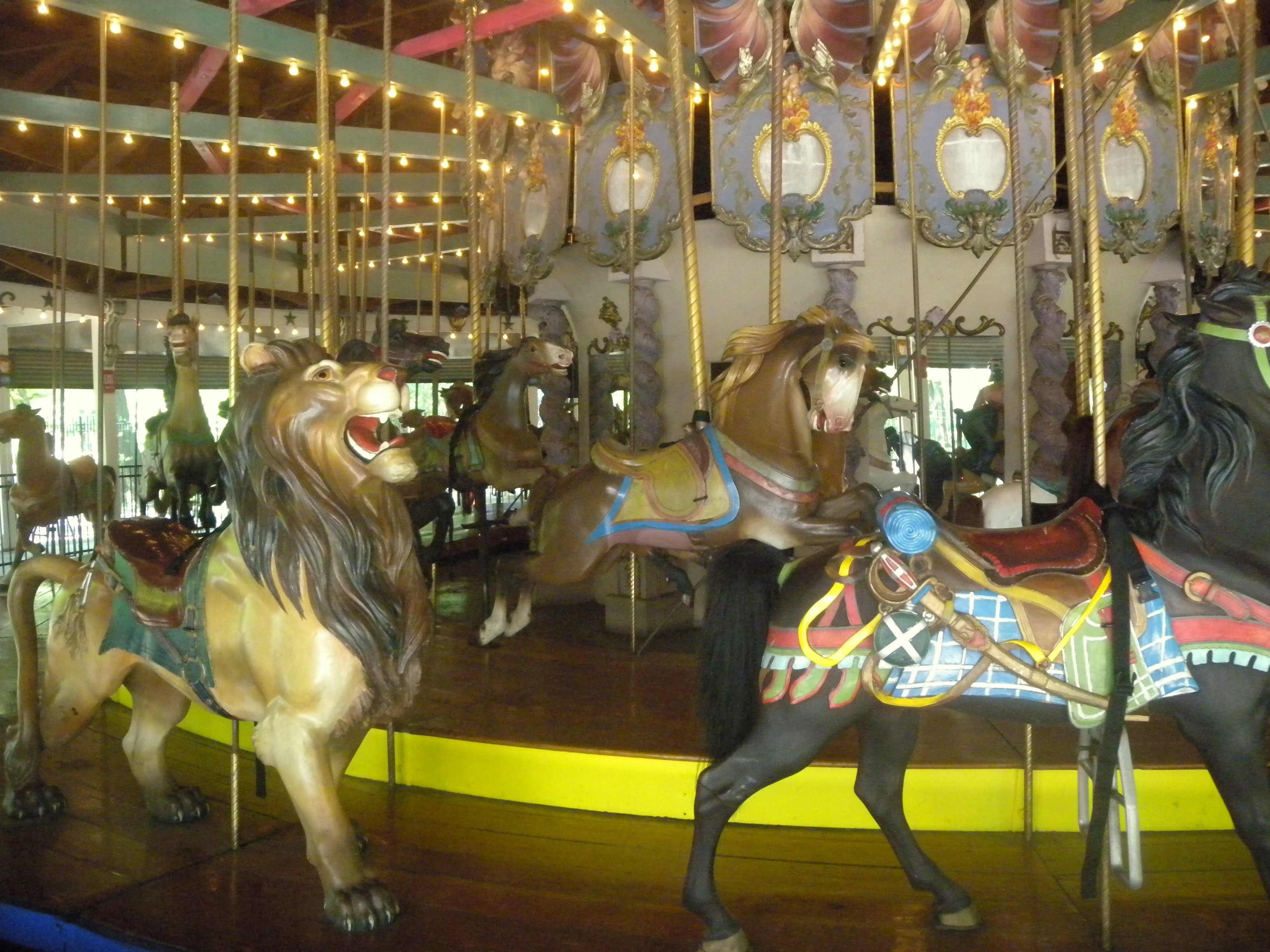 Looking west at carousel on a sunny midday.